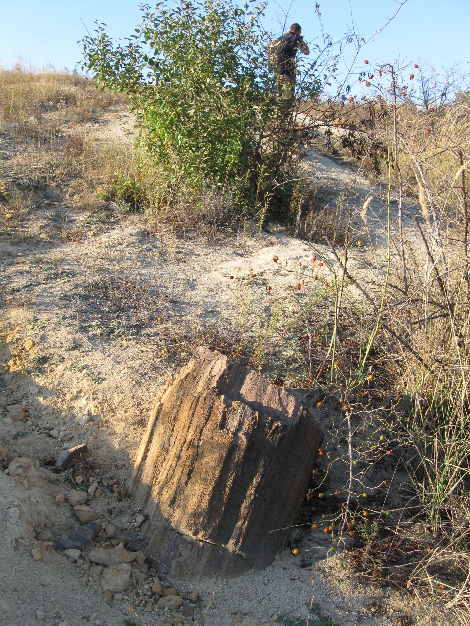 Petrified wood, Ukraine